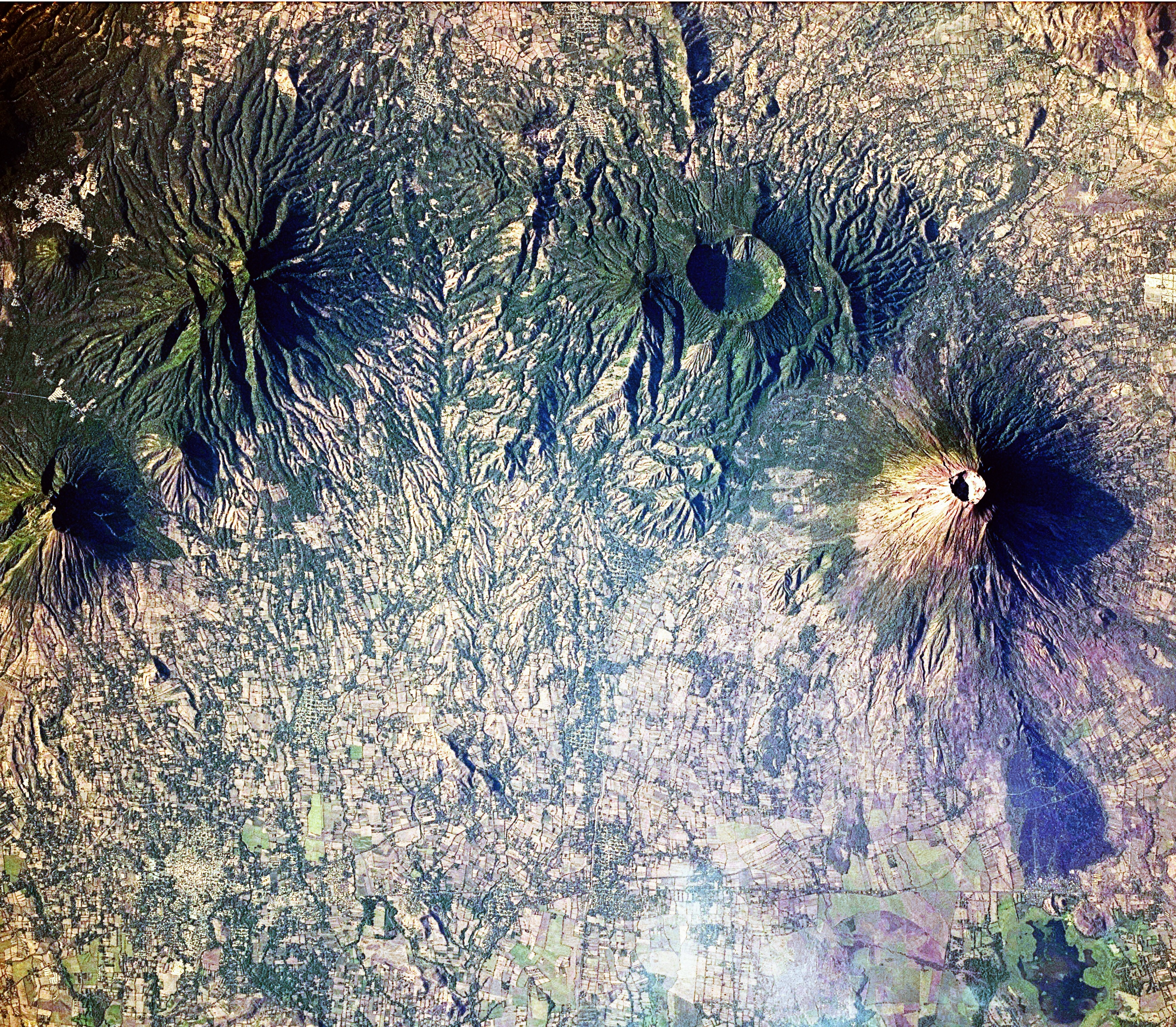 This astronaut photograph includes four stratovolcanoes—a type of volcano common in active subduction zones—in El Salvador, near the midpoint of the Central American Volcanic Arc. While all of the volcanoes shown here have been active during the Holocene Epoch (from about 10,000 years ago to the present), only the 2,130-meter high San Miguel (also known as Chaparrastique) has been active during historical times. The most recent activity of San Miguel was a minor gas and ash emission in 2013. The stratovolcano’s steep cone shape and well-developed summit crater are evident, along with dark lava flows. Immediately to the north-west, the truncated summit of Chinameca Volcano (also known as El Pacayal) is marked by a two-kilometre wide caldera. The caldera formed when a powerful eruption emptied the volcano’s magma chamber, causing the chamber’s roof to collapse. Like its neighbour San Miguel, Chinameca’s slopes host coffee plantations. Moving to the west, the eroded cone of El Tigre Volcano is visible. El Tigre formed during the Pleistocene Epoch (1.8 million to about 10,000 years ago), and it is likely the oldest of the stratovolcanoes in the image. Usulután Volcano is directly south-west of El Tigre. While the flanks of Usulután have been dissected by streams, the mountain still retains a summit crater that is breached on the eastern side. Several urban areas—recognizable as light grey to white regions contrasting with green vegetation and tan fallow agricultural fields—are located in the vicinity of these volcanoes, including the town of Usulután (lower left) and Santiago de Mara (upper left).